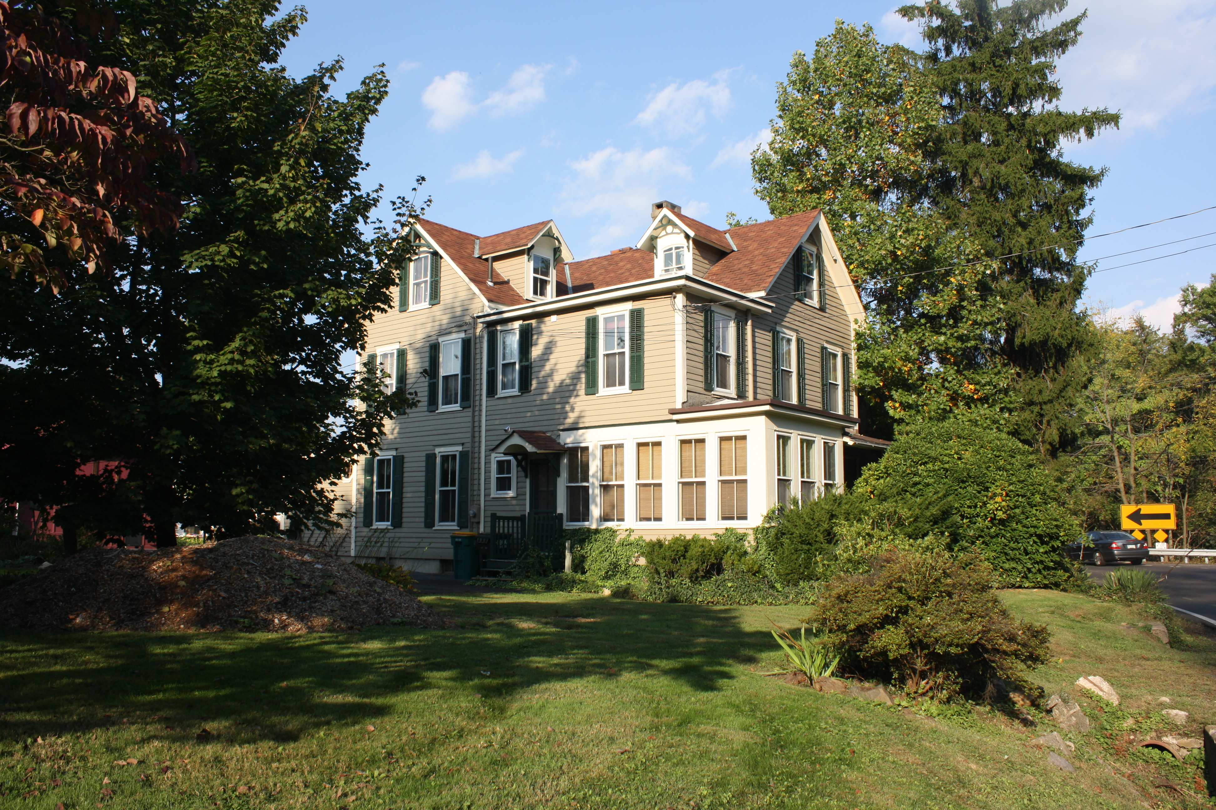 Dolington Village Historic District, Upper Make and Lower Makefield Townships, Bucks County, Pennsylvania. Junction of Pennsylvania Route 532 and Mt. Eyre Road (Washington Crossing Road), Object location40° 15′ 58″ N, 74° 53′ 46″ W